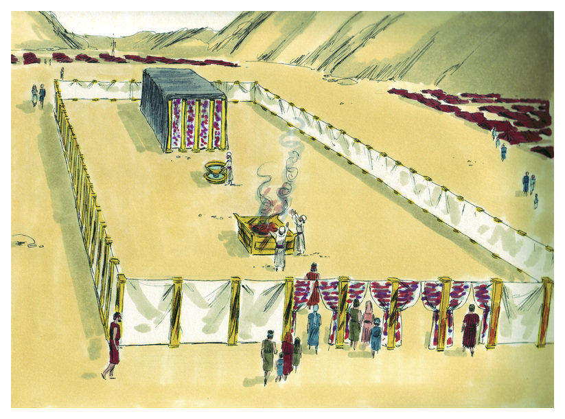 Biblical illustration of Book of Exodus Chapter 28